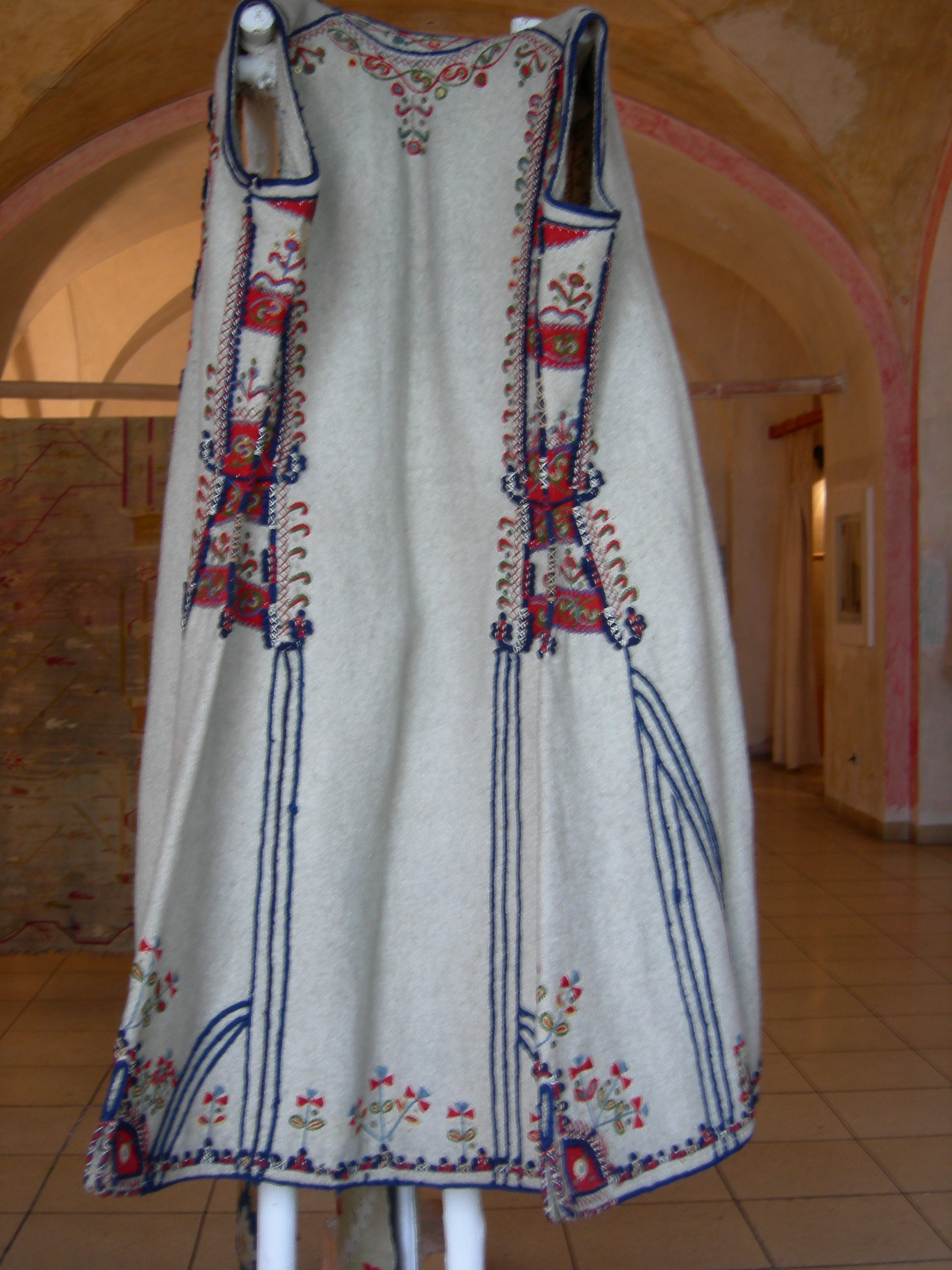 Textiles, Museum of the Romanian Peasant, Bucharest, Romania.